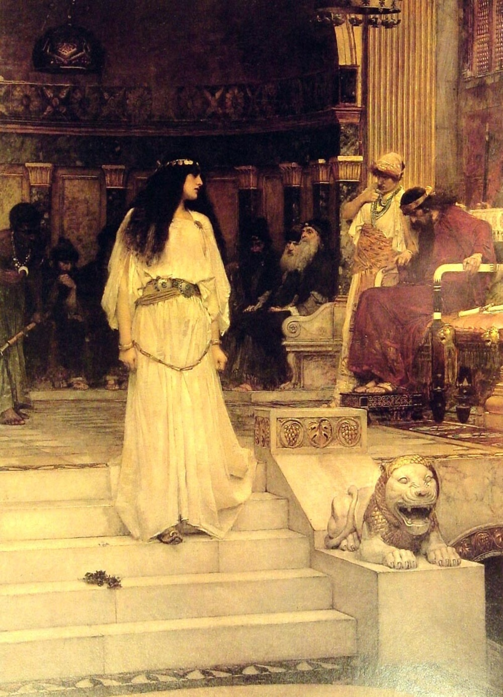 Mariamne Leaving the Judgment Seat of Herod